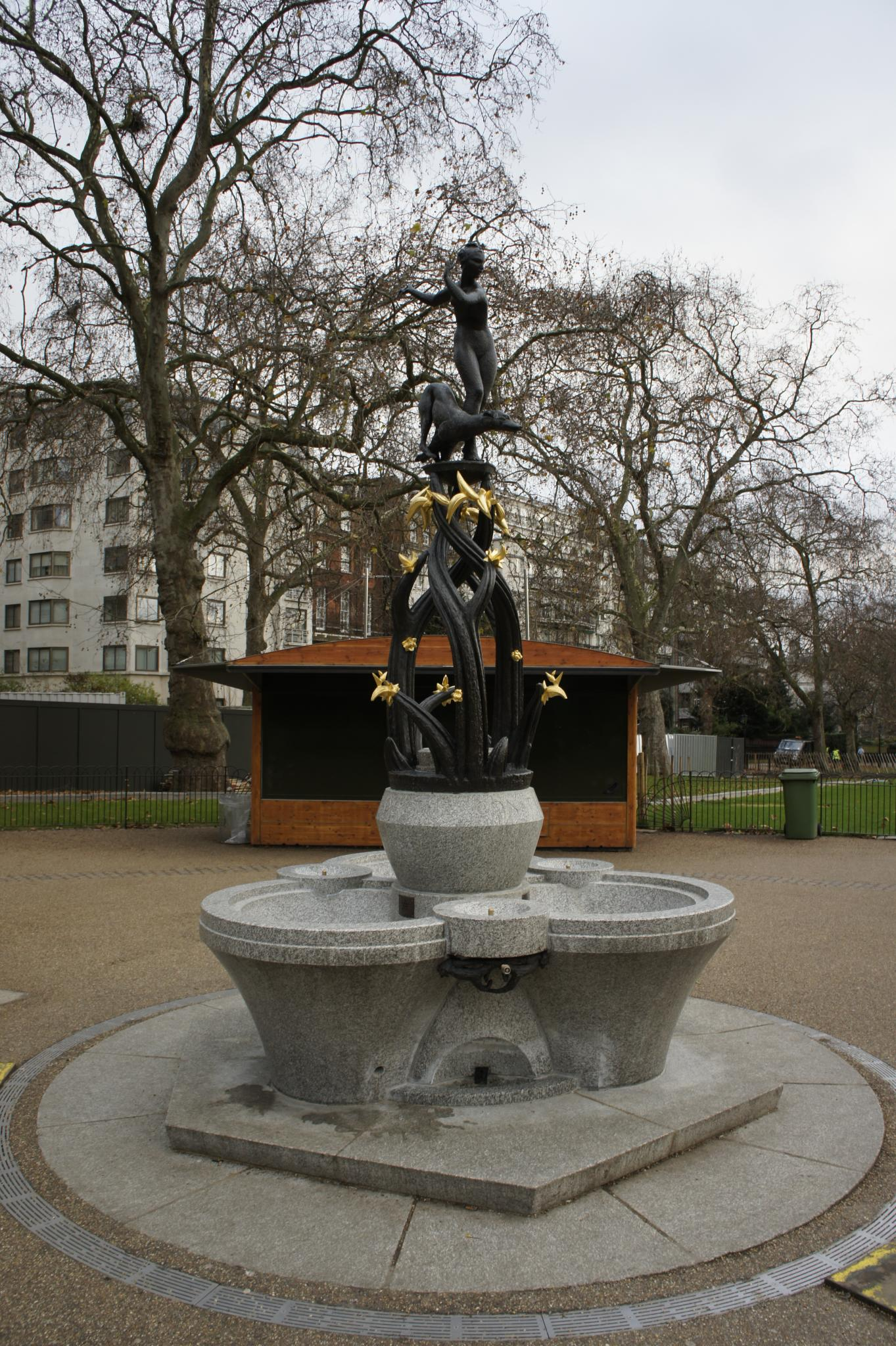 Diana drinking fountain (E. J. Clack, 1951), at the entrance to Green Park tube station